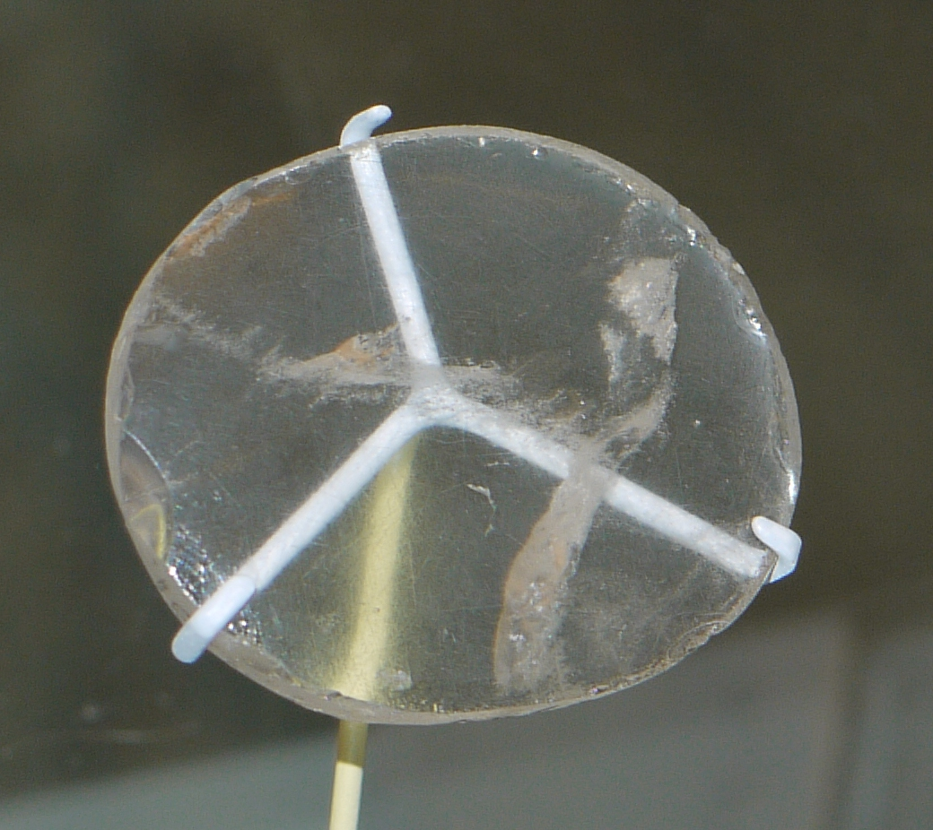 Photo of the Nimrud lens in the british museum